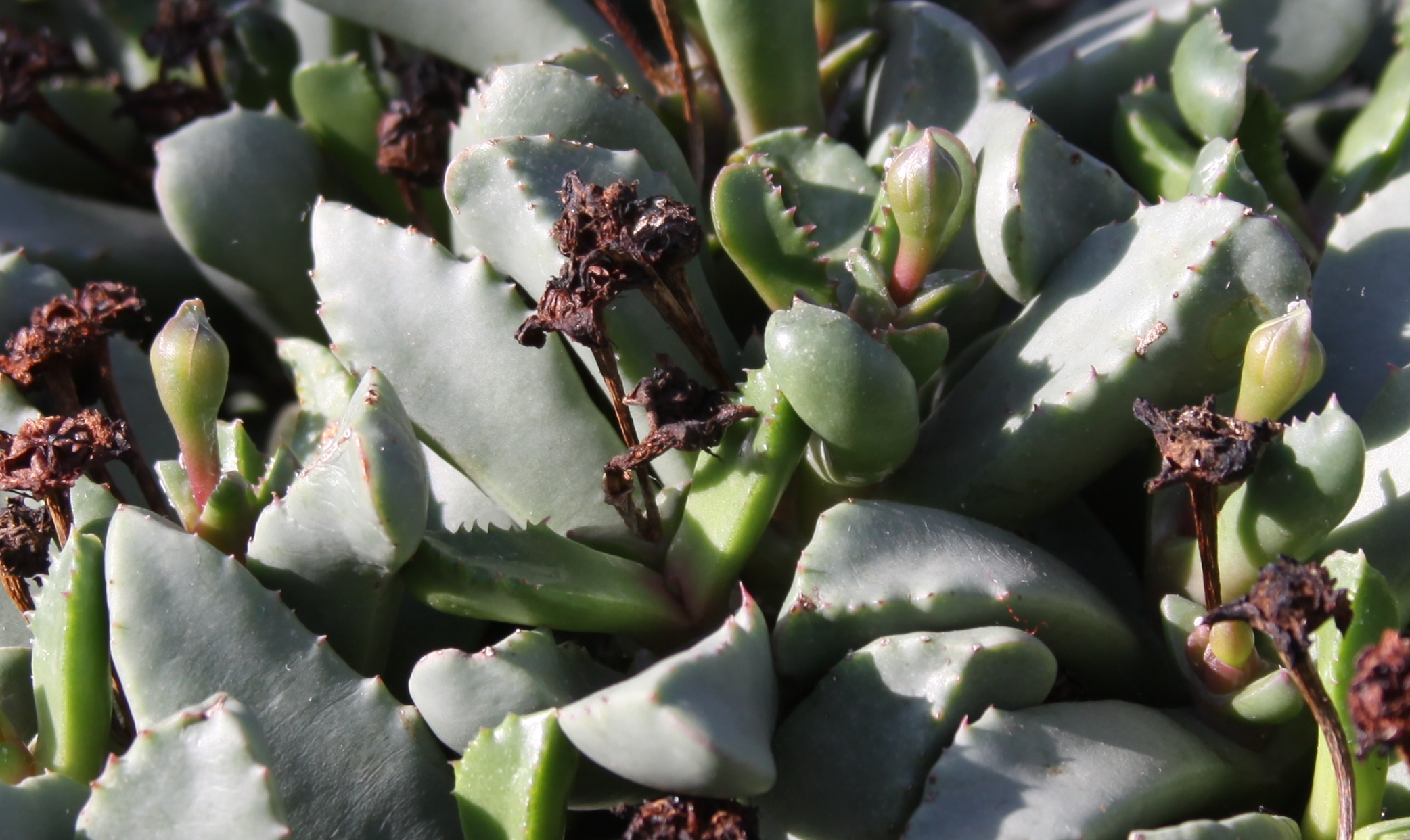 Royal Botanic Gardens, Kew Princess of Wales Conservatory